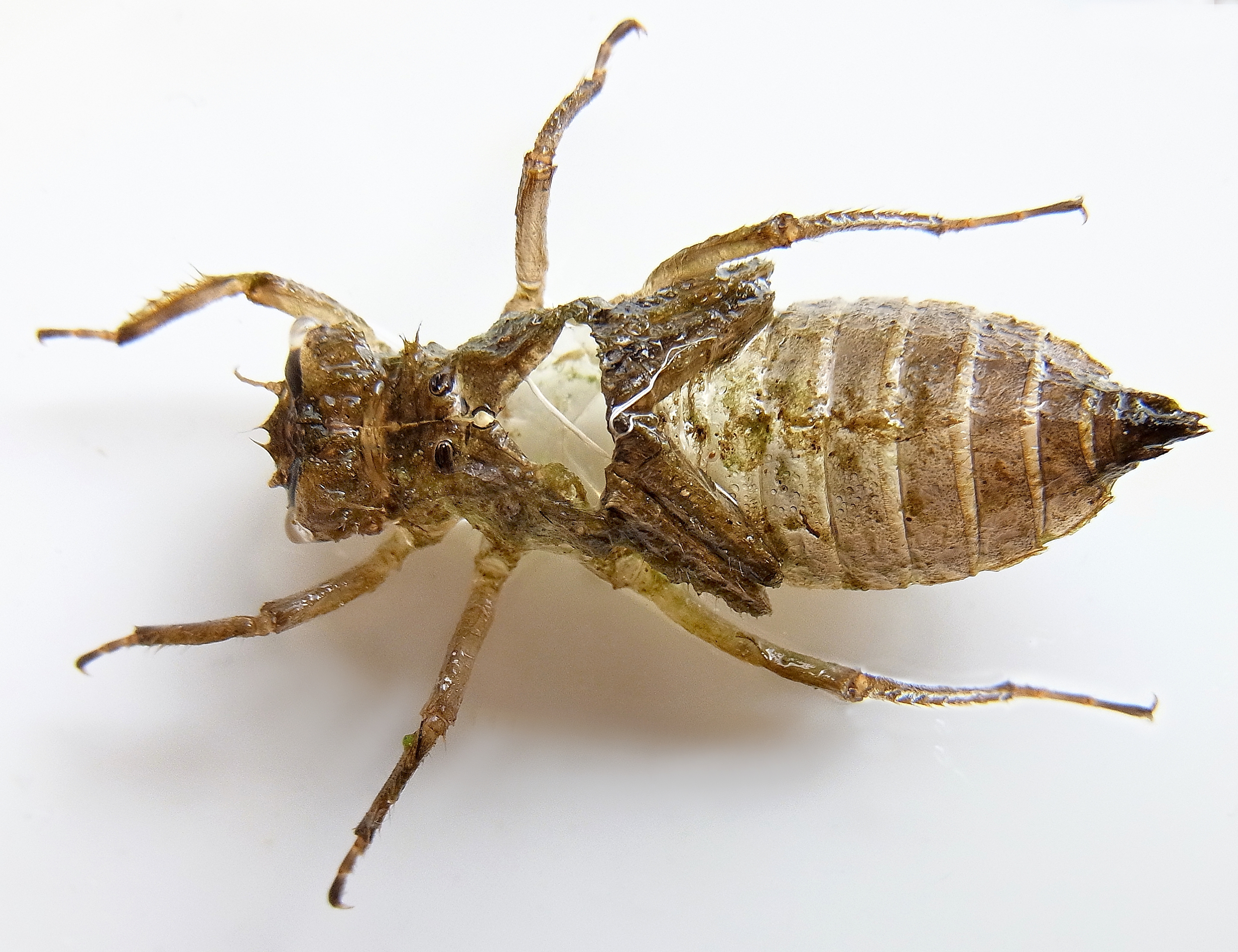 Exuvia of Libellula quadrimaculata from side with dorsal teeth. From Southern Germany, Baden-Württemberg, between the towns Tuttlingen and Rottweil at 700 m.o.s.